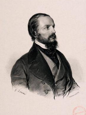 Portrait of french opera singer Pierre Francois Wartel (1806-1882)